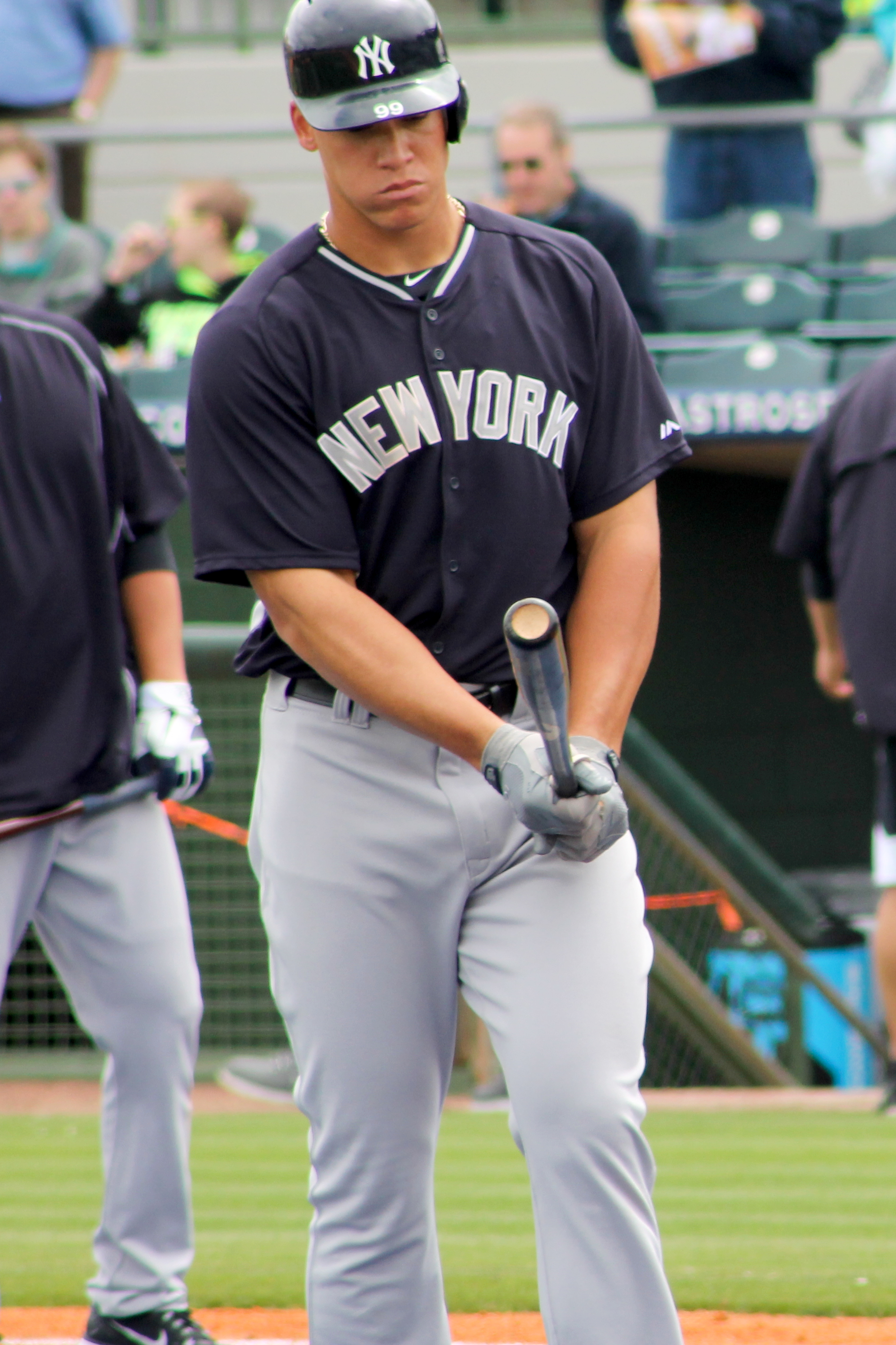 Professional baseball player Aaron Judge during New York Yankees spring training in March 2015.